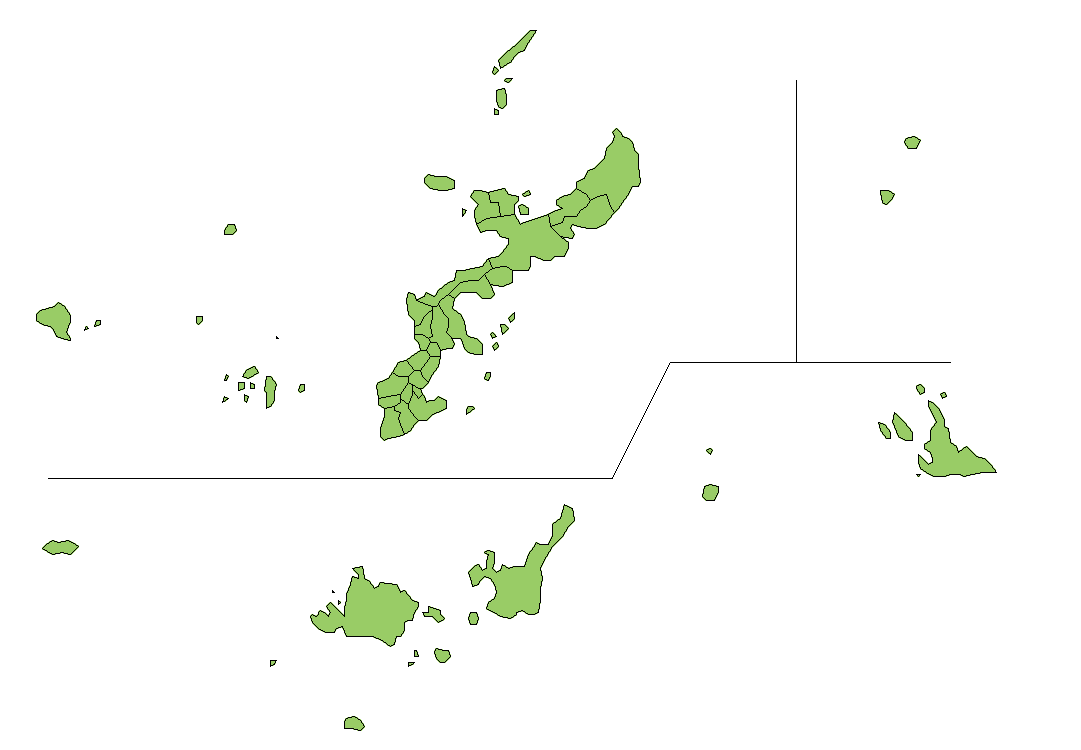 Map of Okinawa Prefecture, Japan. Thanks to Aoki Shigenobu and [1]. Colors from Image:TokyoMapCurrent.png by User:Fg2.